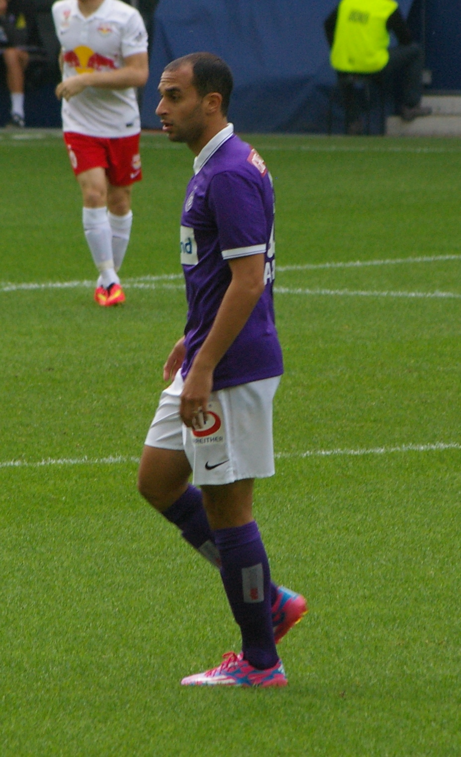 Austrian Bundesliga league match